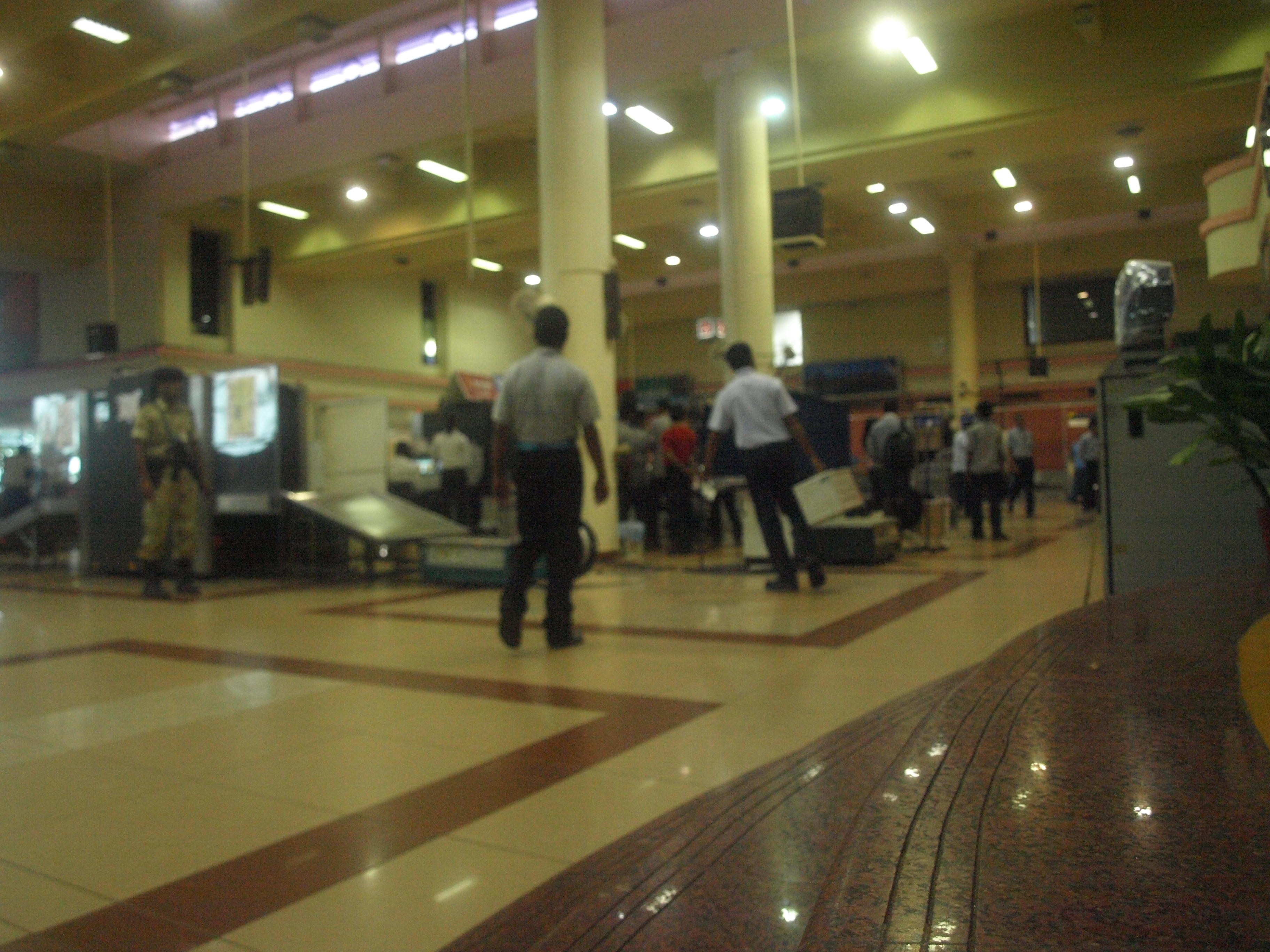 At Dabolim airport, Goa, India